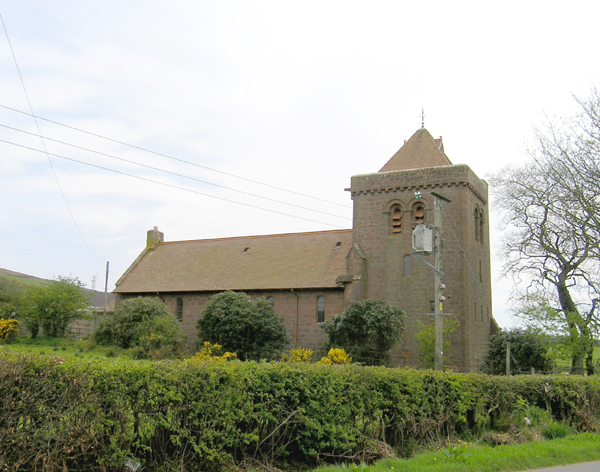 Church of Scotland, St Molios, Shiskine, North Ayrshire, Alba. "A small wooden carving of St Molios, who lived as a hermit on Holy Isle, is set into a bench end on the south side of the sanctuary. " This page at VisitScotland.